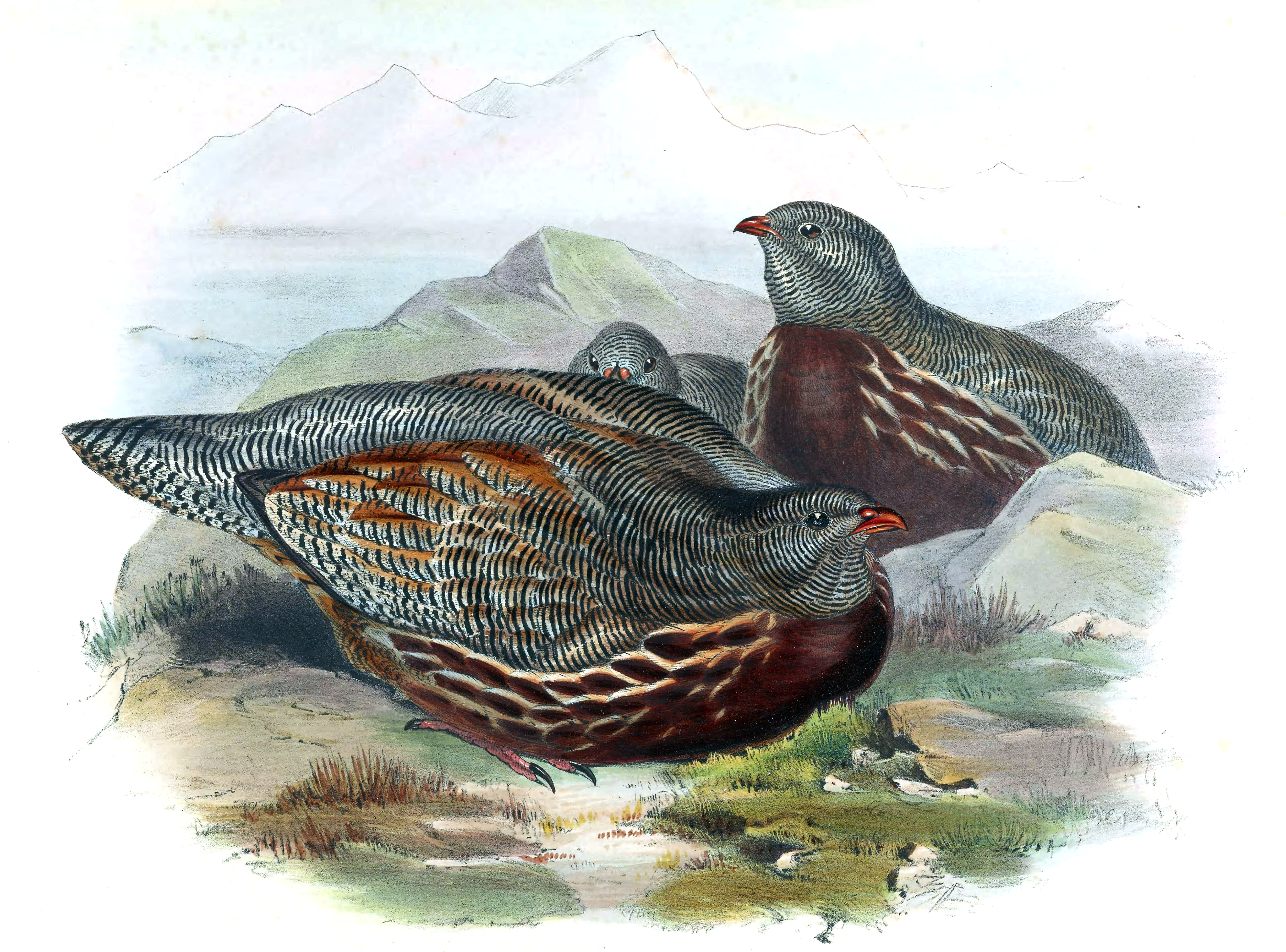 Illustration of Lerwa lerwa Linn. (Snow partridge)